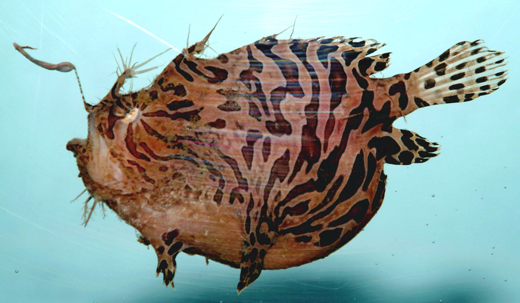 Striped anglerfish ( Antennarius striatus ). Gulf of Mexico.